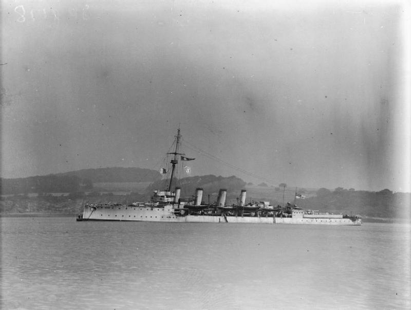 Photograph of British scout cruiser HMS Blanche, at Scapa Flow.